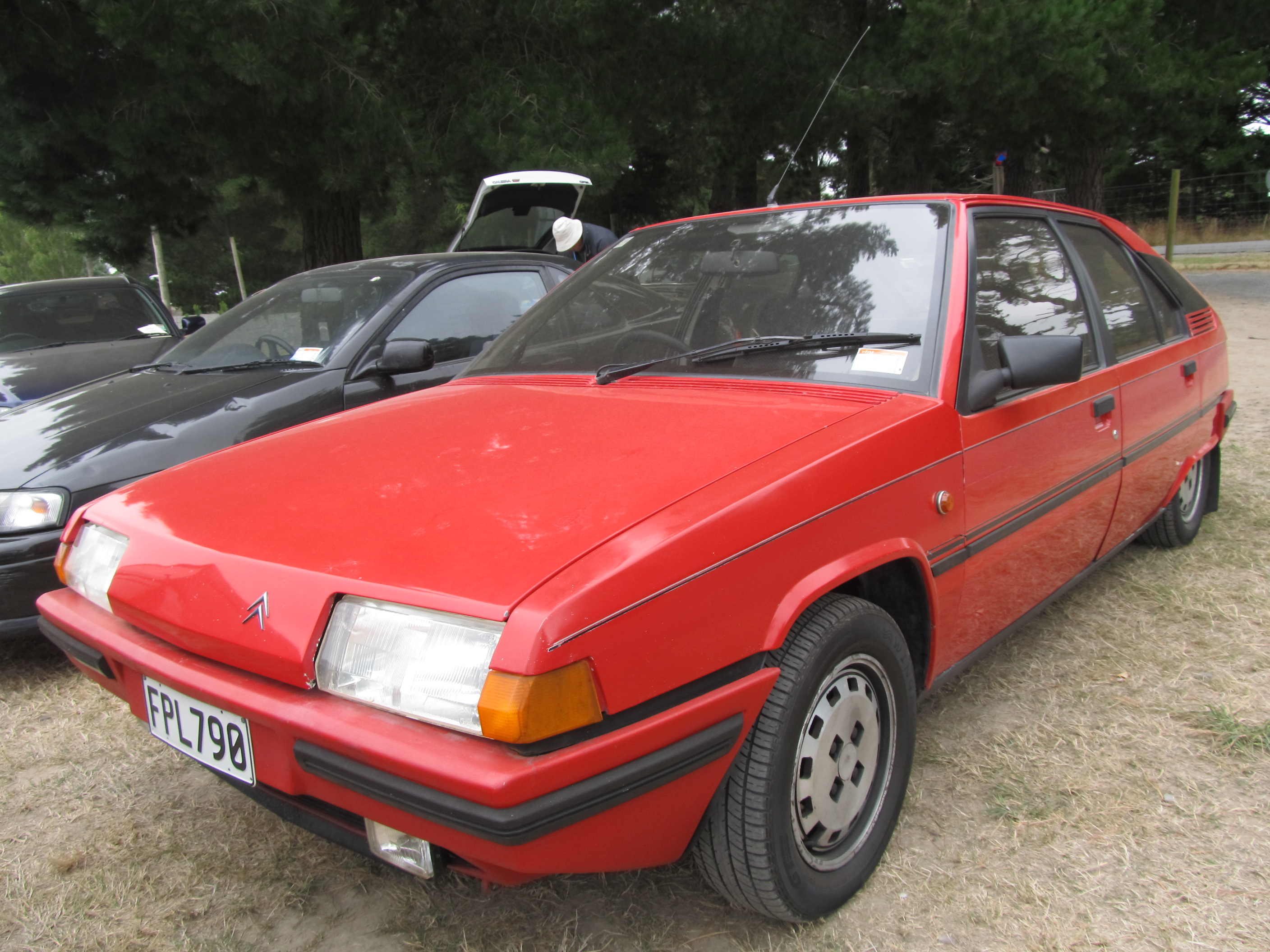 FPL790 This is the oldest BX I ever recall seeing, and what a minter it is too... I always thought the BX was a quirky car, in that it wasn't really a 'compact' hatchback as such but a liftback. Citroen has been known to push boundaries, which is good, but they don't do it as much any more. This was literally spotless - it was unmarked, although I wish it kept its original black M plate.